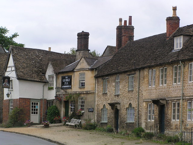 George Inn, Lacock Early morning before the tour buses arrive.